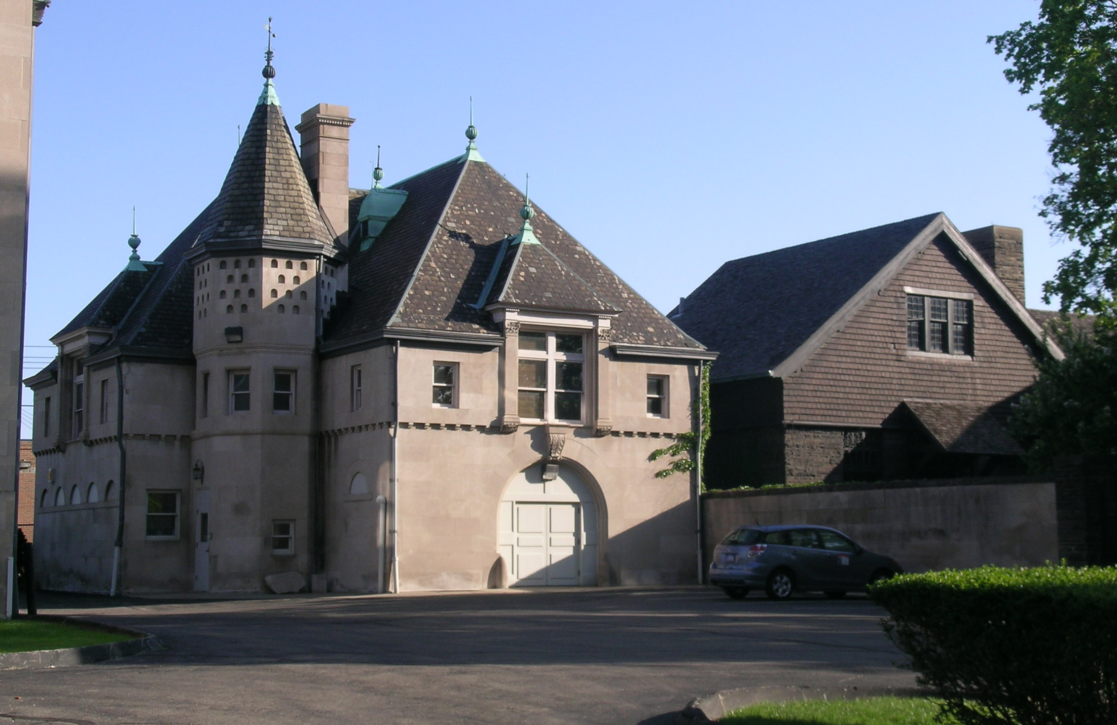 The carriage houses of the Col. Frank J. Hecker House (left) and Charles Lang Freer House (right). Located in Midtown Detroit, Michigan.